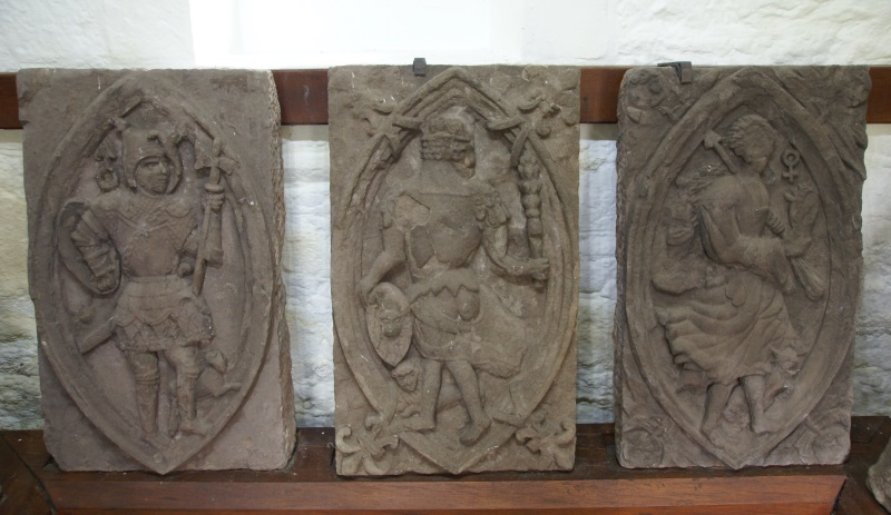 Edzell Castle, Angus, Scotland. Mars, Sol and Venus.